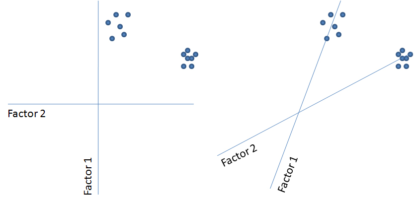 Self made hypothetical 2 factor oblique rotation